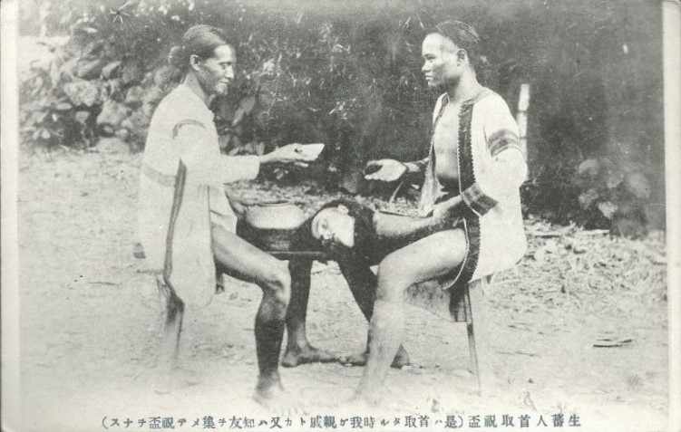 The headhunting ritual of aborigines in Taiwan.caption:生蕃人首取祝盃。首取の時は親戚友人を集めて祝盃をする